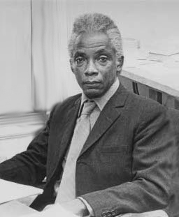 A picture of Dennis Williams sitting in his office in Georgetown, Guyana.